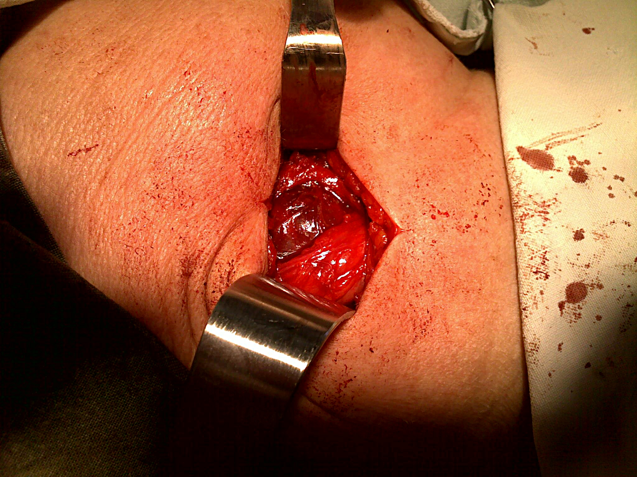 Carotid paraganglioma